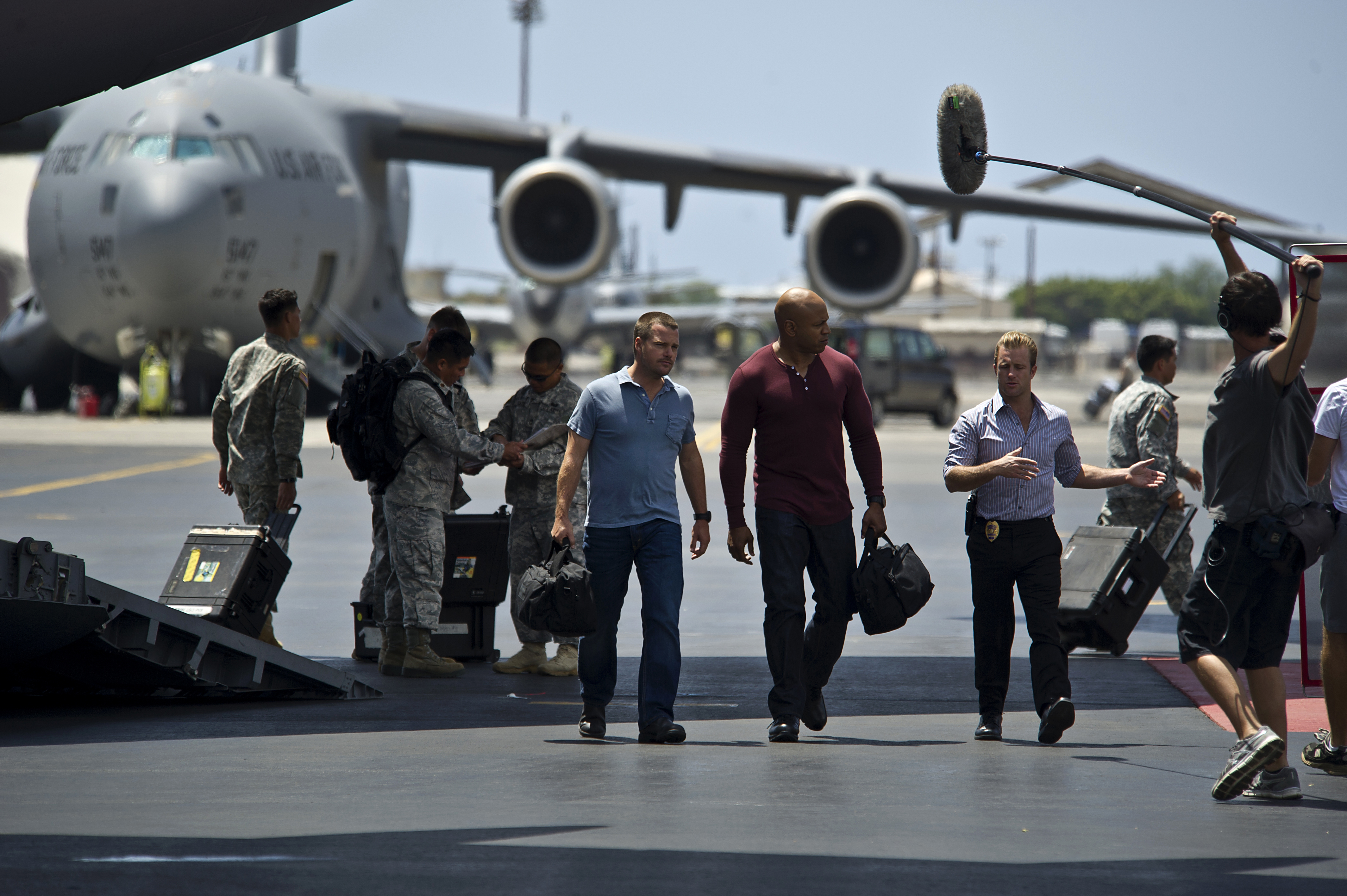 Actors Chris O'Donnell, LL Cool J, and Scott Caan of "NCIS: Los Angeles" and "Hawaii Five-0" act out a scene during a recent episode of the CBS hit show "Hawaii Five-0" episode at Joint Base Pearl Harbor-Hickam on March 26, 2012. U.S. Air Force airmen and Hawaii Army National Guard soldiers were cast as background extras during the filming.